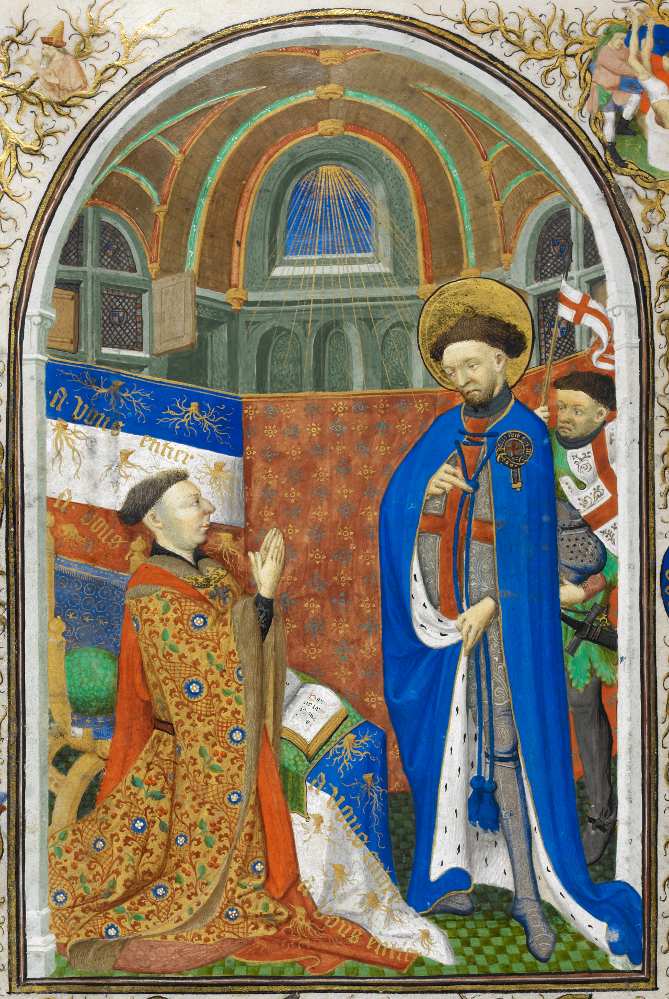 Minature of John, Duke of Bedford, praying before St George; from BL Add MS 18850, f. 256v (the "Bedford Hours"). Held and digitised by the British Library.